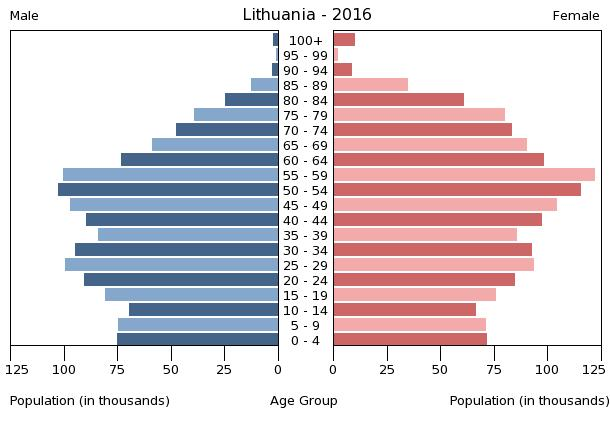 The population pyramid of Lithuania illustrates the age and sex structure of population and may provide insights about political and social stability, as well as economic development. The population is distributed along the horizontal axis, with males shown on the left and females on the right. The male and female populations are broken down into 5-year age groups represented as horizontal bars along the vertical axis, with the youngest age groups at the bottom and the oldest at the top. The shape of the population pyramid gradually evolves over time based on fertility, mortality, and international migration trends.